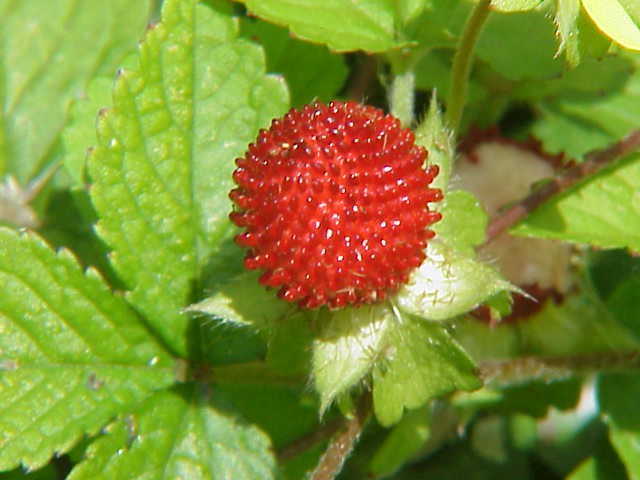 Species: Duchesnea indica Family: Rosaceae Image No. 10